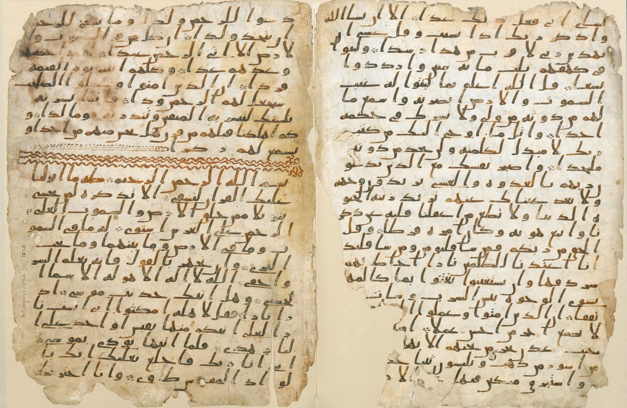 Seventh-century Quran manuscript held by the University of Birmingham. Folio 2 recto (left) and folio 1 verso (right). From the end of Chapter 19 القرآن الكريم/سورة مريم to the beginning of Chapter 20 القرآن الكريم/سورة طه.